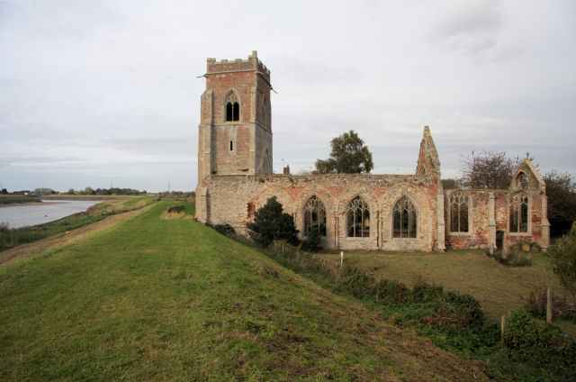 Ruined church of Wiggenhall St Peter This church is situated perilously close to the bank of the River Great Ouse. It has been derelict for the past hundred years.